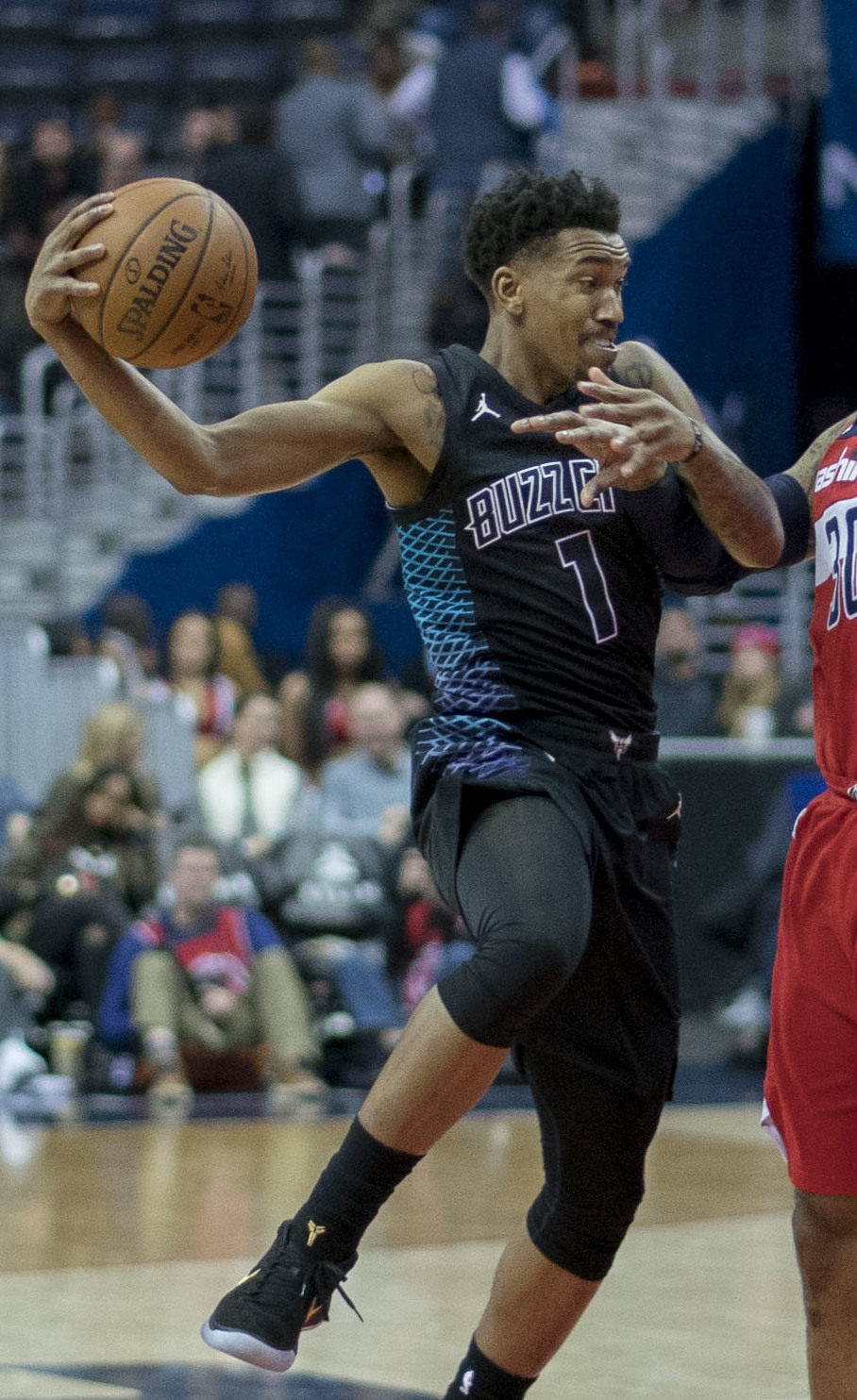 Hornets at Wizards 2/23/18